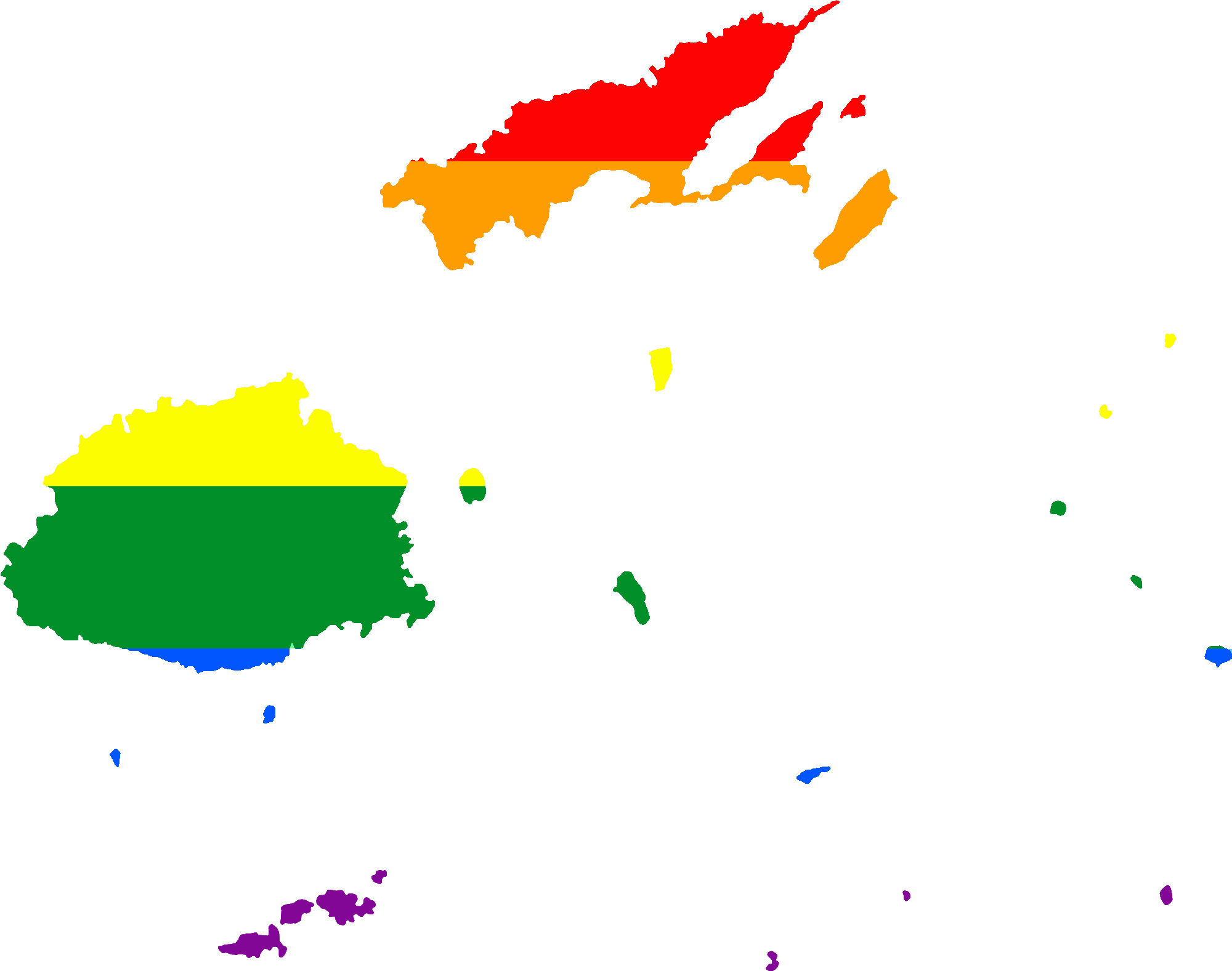 LGBT Flag map of Fiji